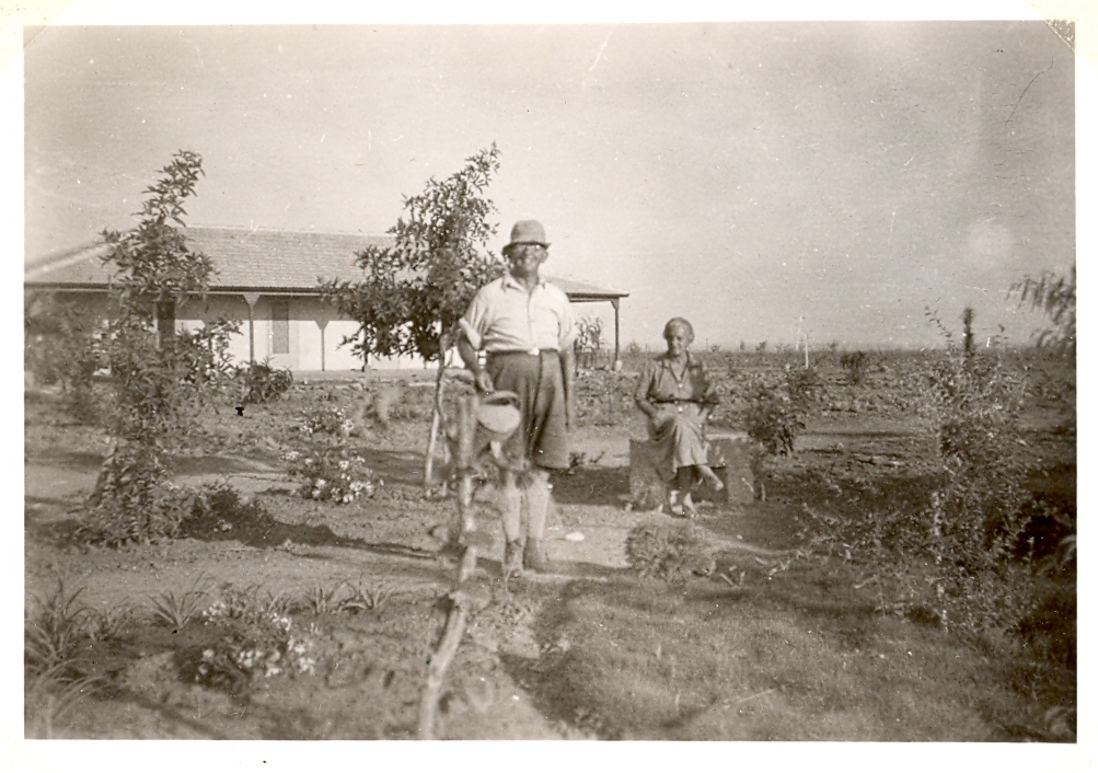 Settlements in Israel